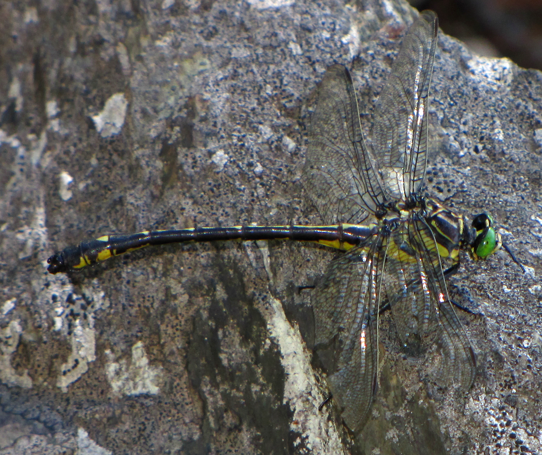 Dragonhunter (Hagenius brevistylus), Donald Lake, Chiniguchi River Par, Temagami, Ontario, Canada